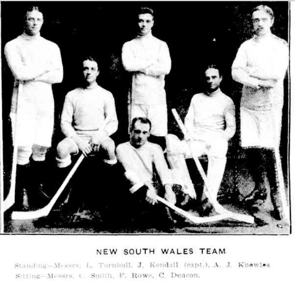 New South Wales Team selected for the 1913 Goodall Cup inter-state series